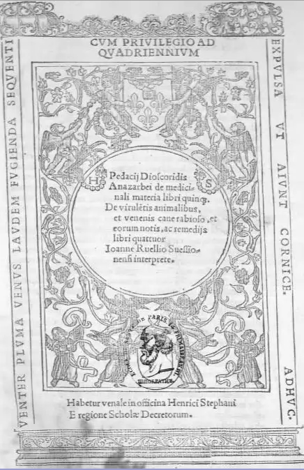 Dioscorides de materia medica translated by Ruellius, 1516, title page